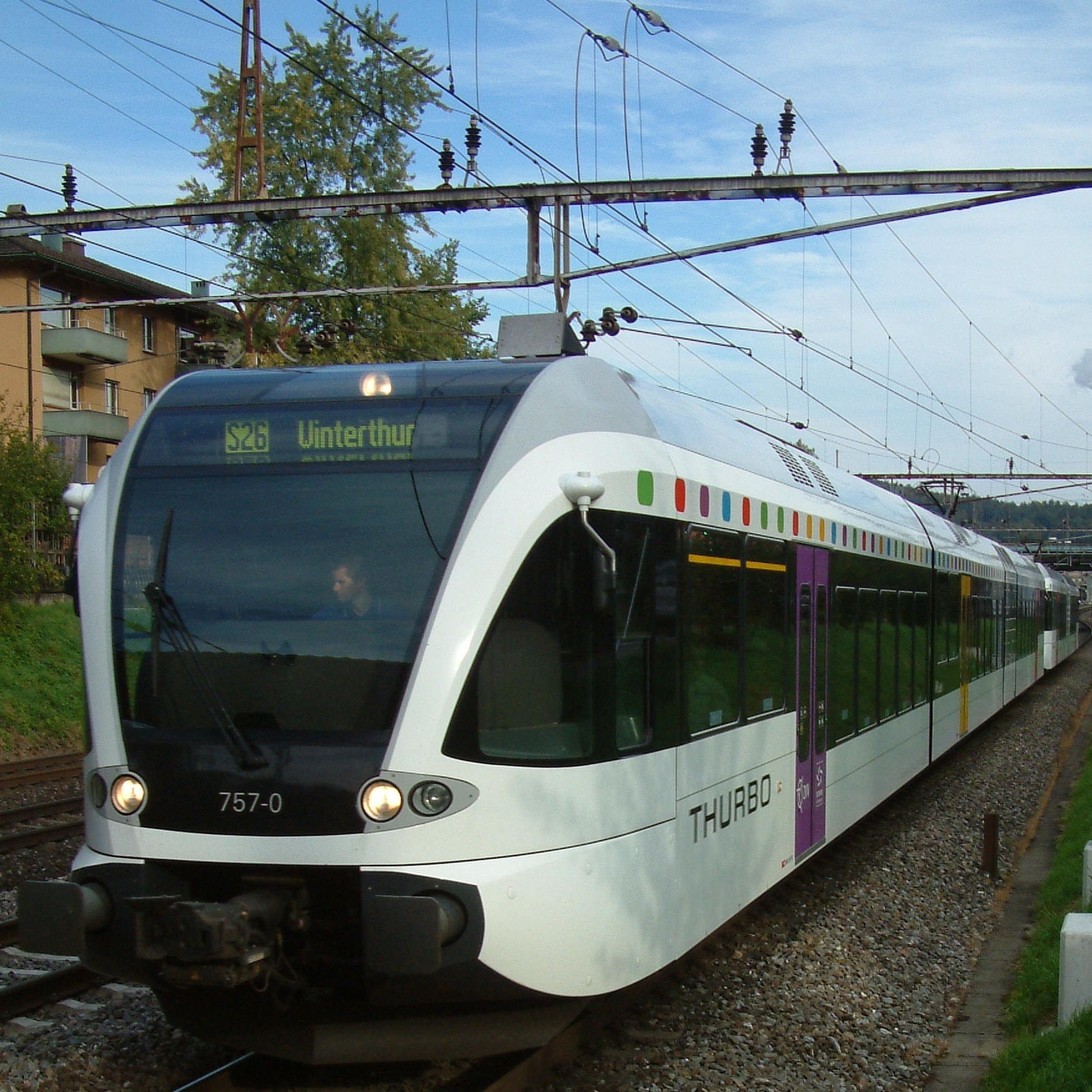 GTW 2/8 757-0 with Train SBB S26